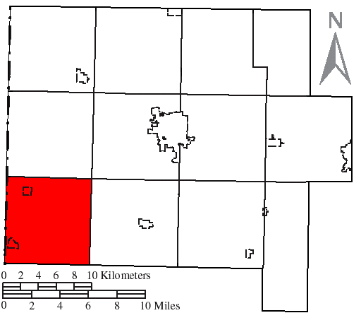 Made by the US Census and modified by myself